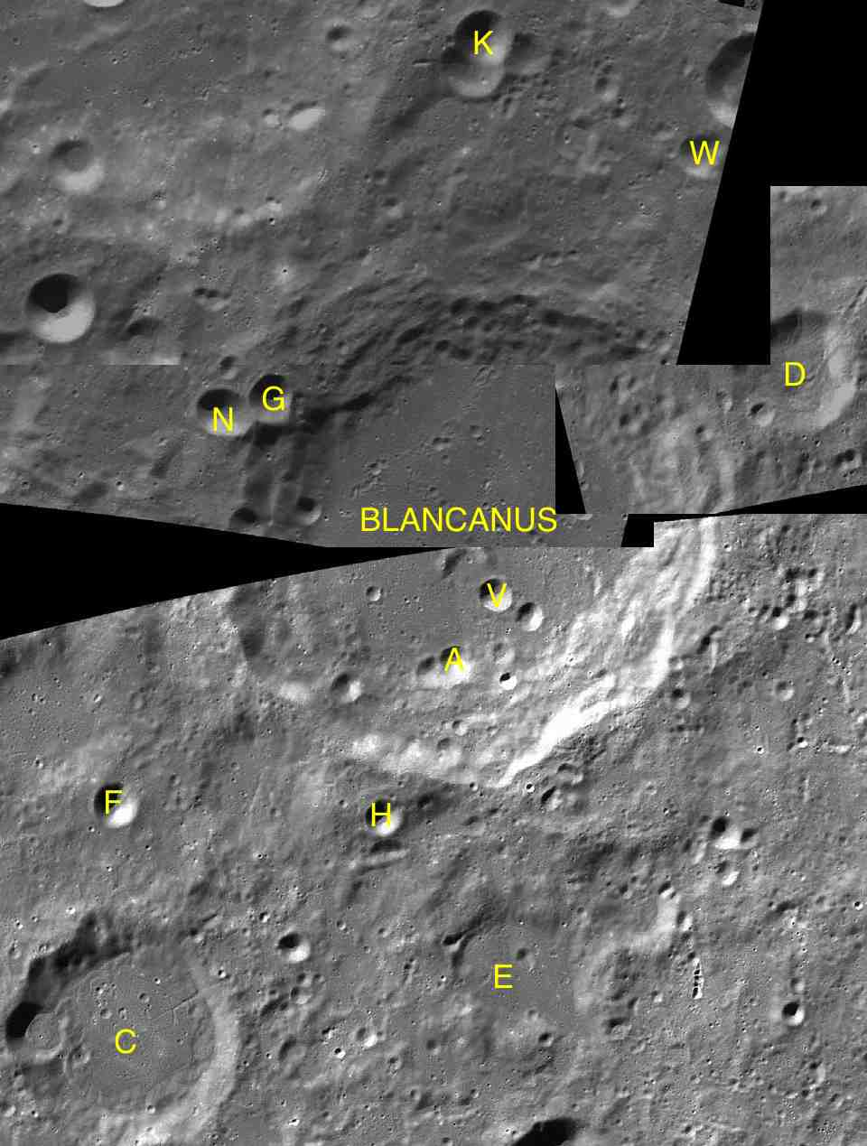 Parts of the charts LAC-125, LAC-126, LAC-137 used for the presentation